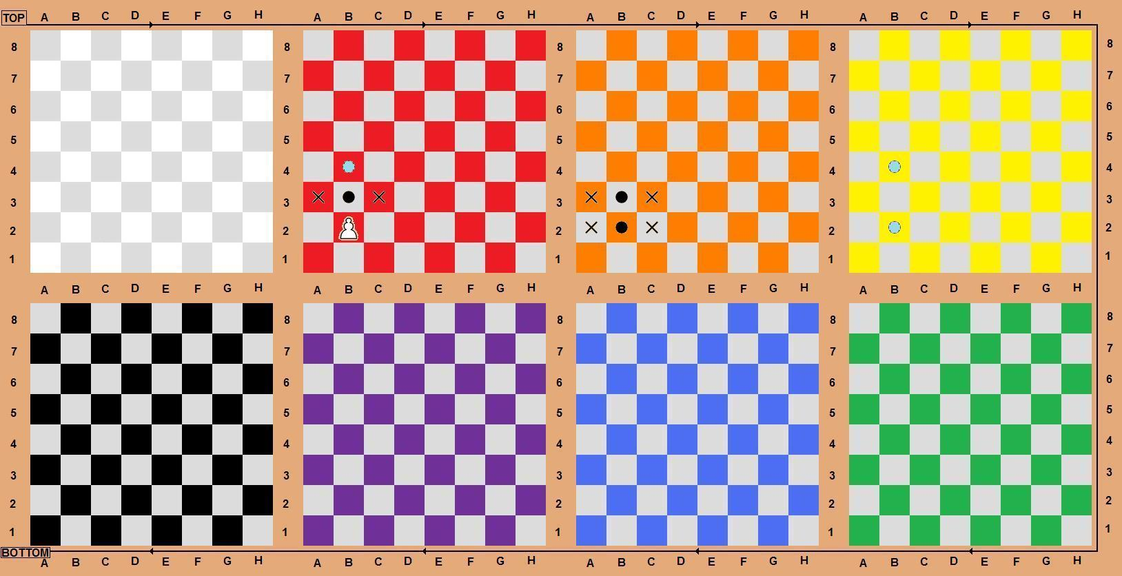 Two dimensional representation of an 8x8x8 Chess Board showing the possible movements of the Pawn.